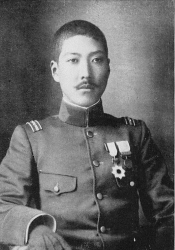 Shizunosuke Nozu